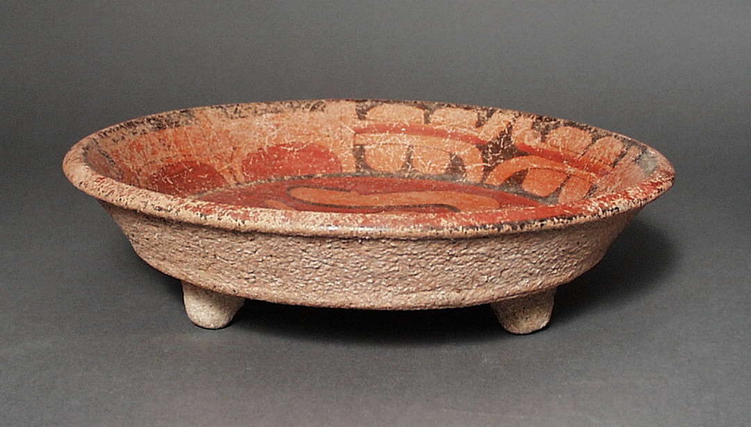 Campeche, Edzná region, Maya, A.D. 550-800 Furnishings; Serviceware Ceramic with slip Gift of Constance McCormick Fearing (M.86.311.36) Art of the Ancient Americas